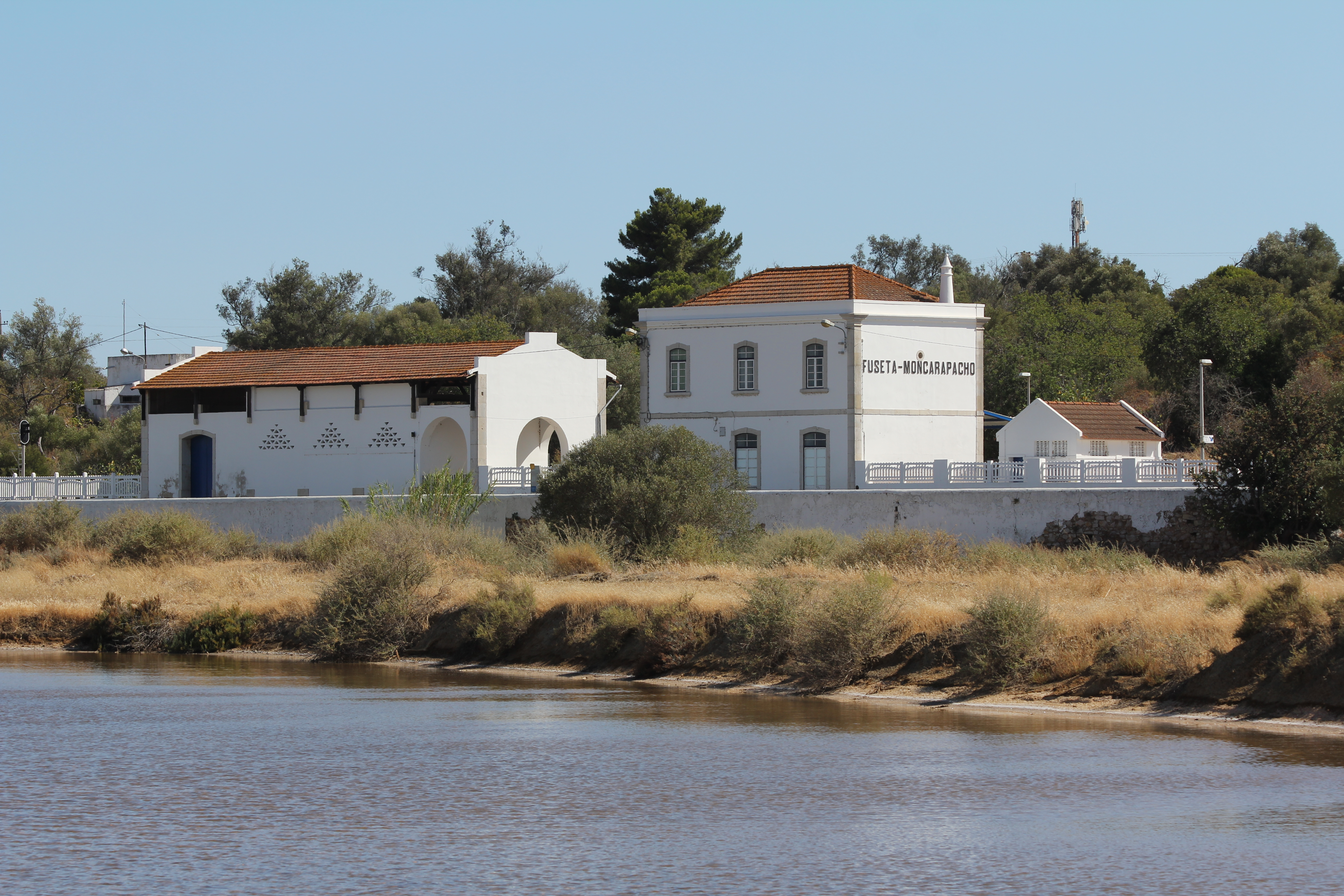 Fuseta-Moncarapacho train station on Algarve railway line, Fuseta, Portugal.